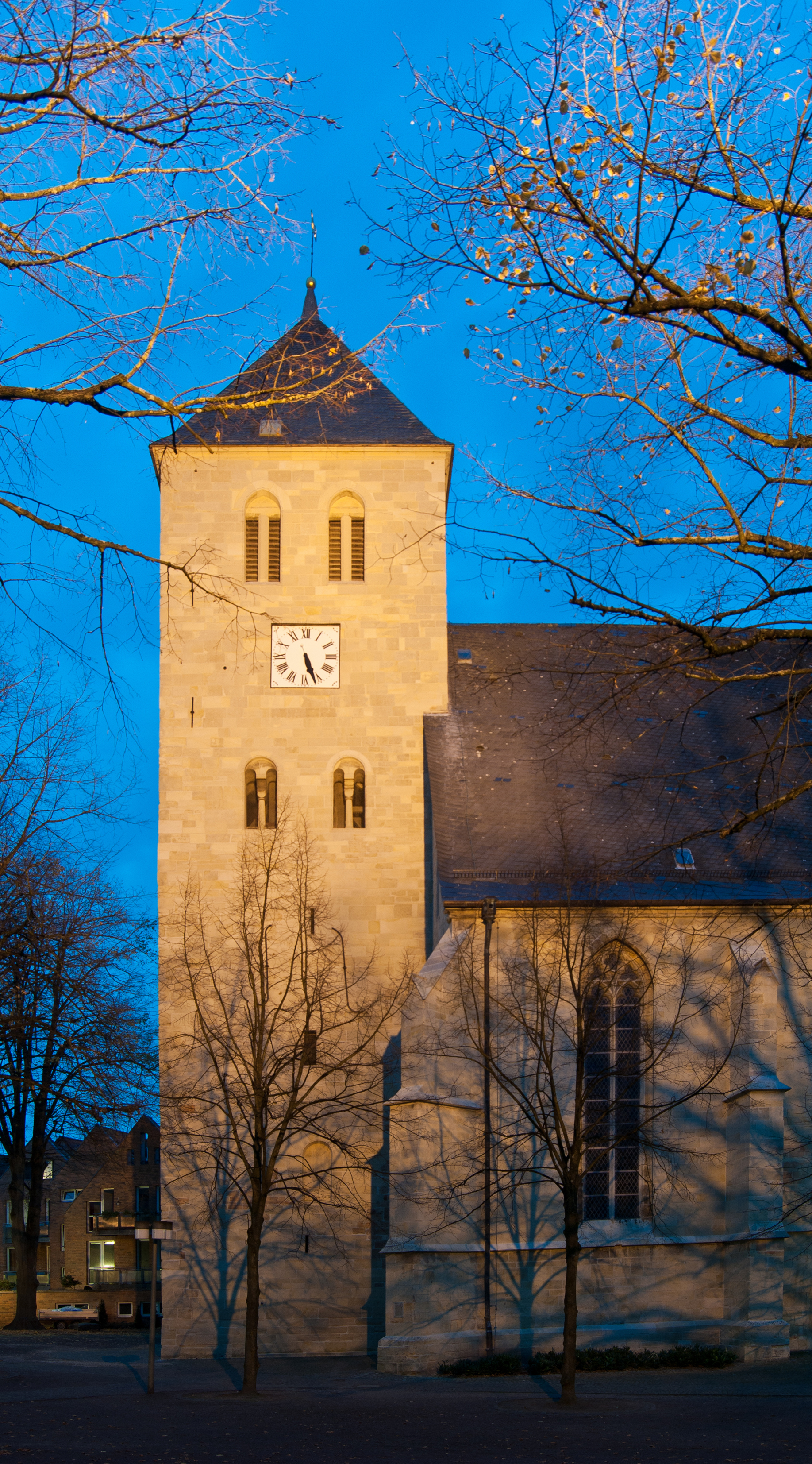 Havixbeck (North Rhine-Westphalia, Germany) – Catholic Saint Dionysius Church – tower during the blue hour This image shows a heritage building in Germany, located in the North Rhine-Westphalian city Havixbeck (no. 1). This photograph was taken with a Nikon D3000